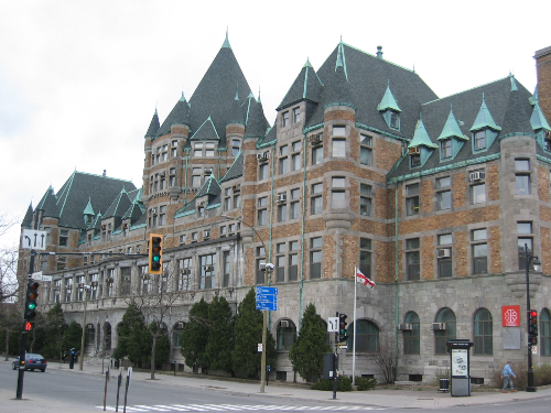 Place Viger, a hotel and railway station constructed in 1898 in Montreal, Canada